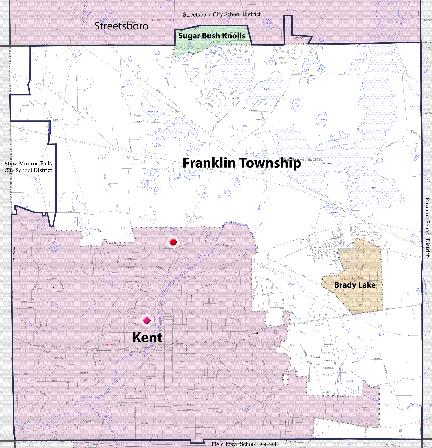 Map showing location of Theodore Roosevelt High School and the Central School Annex within the boundaries of the Kent City School District in Kent, Ohio, USA. The district includes most of Kent and Franklin Township and all of the villages of Brady Lake and Sugar Bush Knolls and a very small portion of Streetsboro. School district boundaries are superimposed over the U.S. Census Bureau map. The boundaries of the Kent City School district are the dark blue solid lines; boundaries of neighboring school districts are dark gray solid lines. Theodore Roosevelt High School is indicated by the solid red circle just to the left of the center of the image with the Central School Annex represented by the pink diamond. The various townships and municipalities and their respective boundaries are represented by the shaded areas and dotted lines.